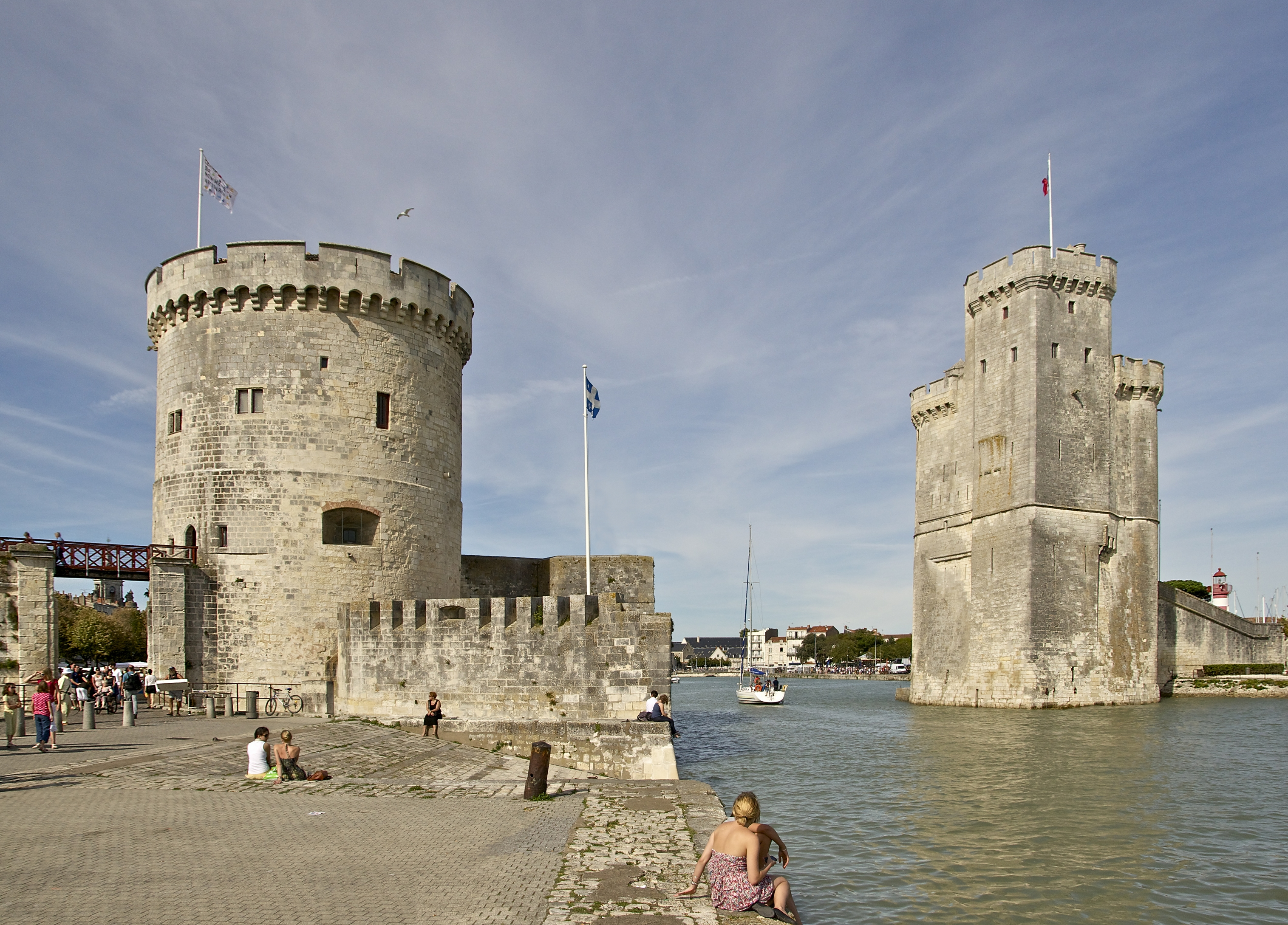 The entry of the old harbor of La Rochelle, Charente-Maritime, France. TWO historic monuments on the same picture !